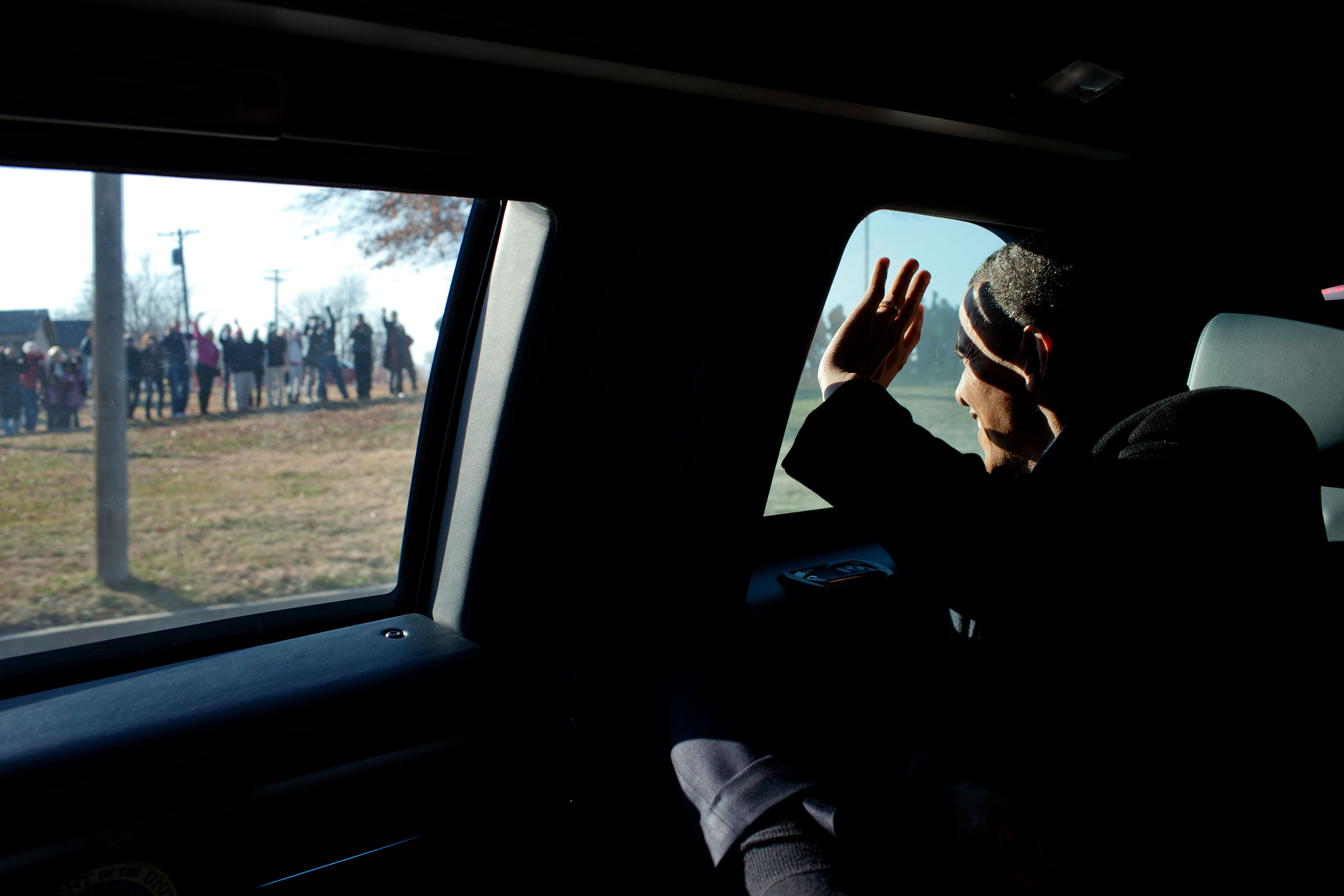 President Obama waving to Kansans after his economic speech in Osawatomie, Kansas on December 6, 2011. (Official White House Photo by Pete Souza)